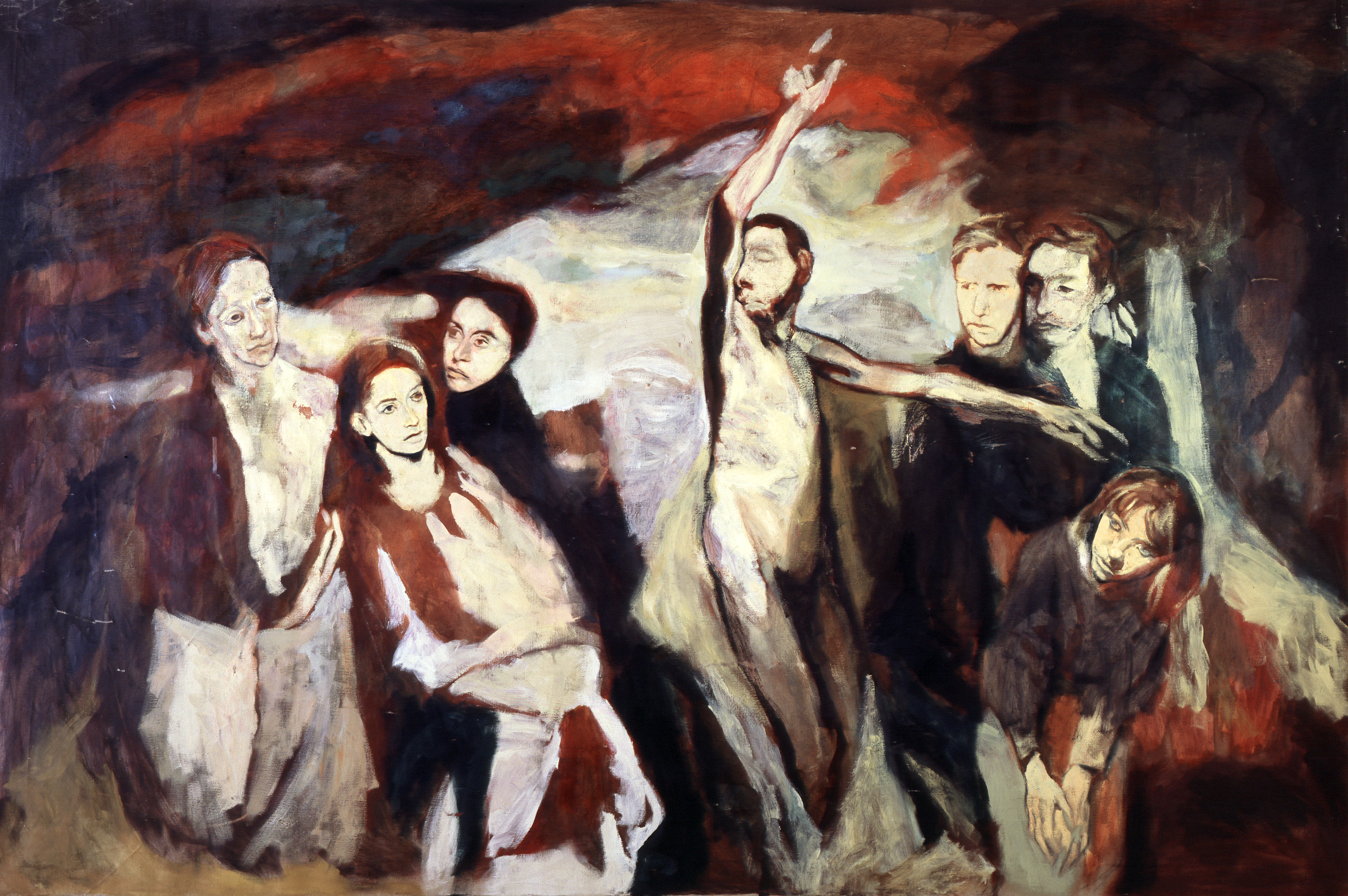 1965 - Six Characters in Search 79"x108"